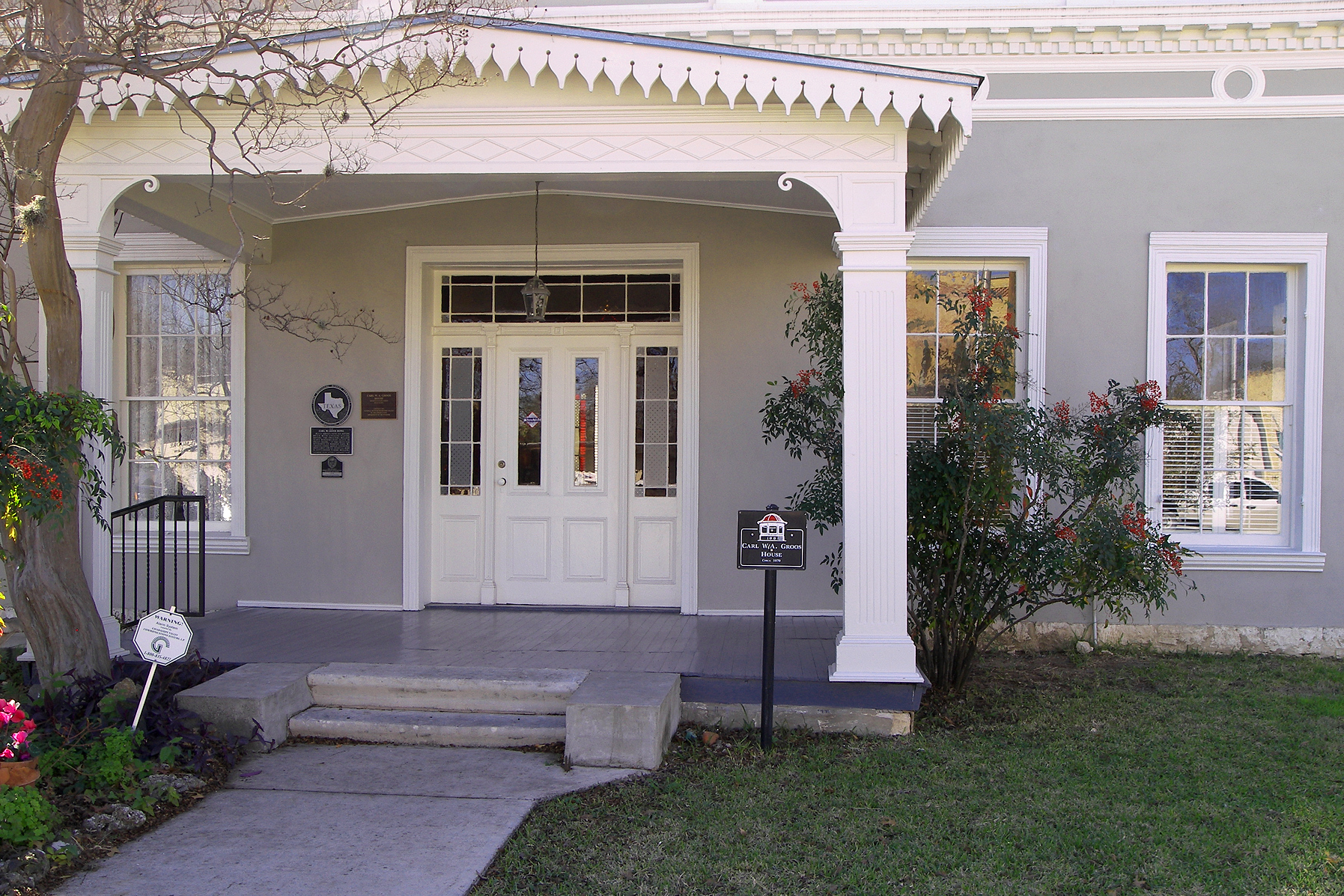 The Carl W. A. Groos House in New Braunfels, Texas, United States. The house was designated a Recorded Texas Historic Landmark in 1968 and was listed on the National Register of Historic Places on August 17, 2000.